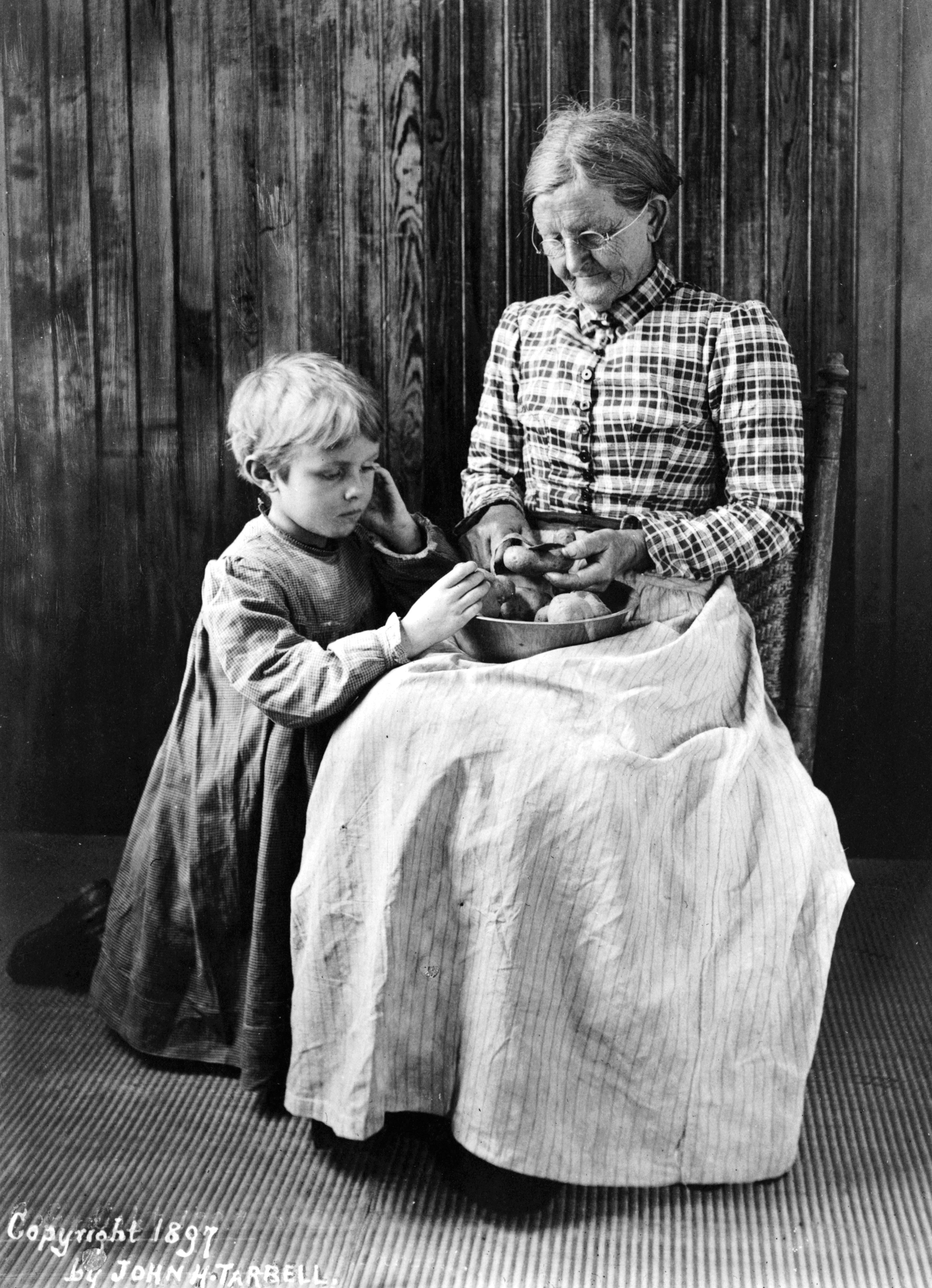 An elderly woman seated in a chair peeling potatoes with a young girl, possibly a granddaughter, kneeling on the floor next to her, watching.